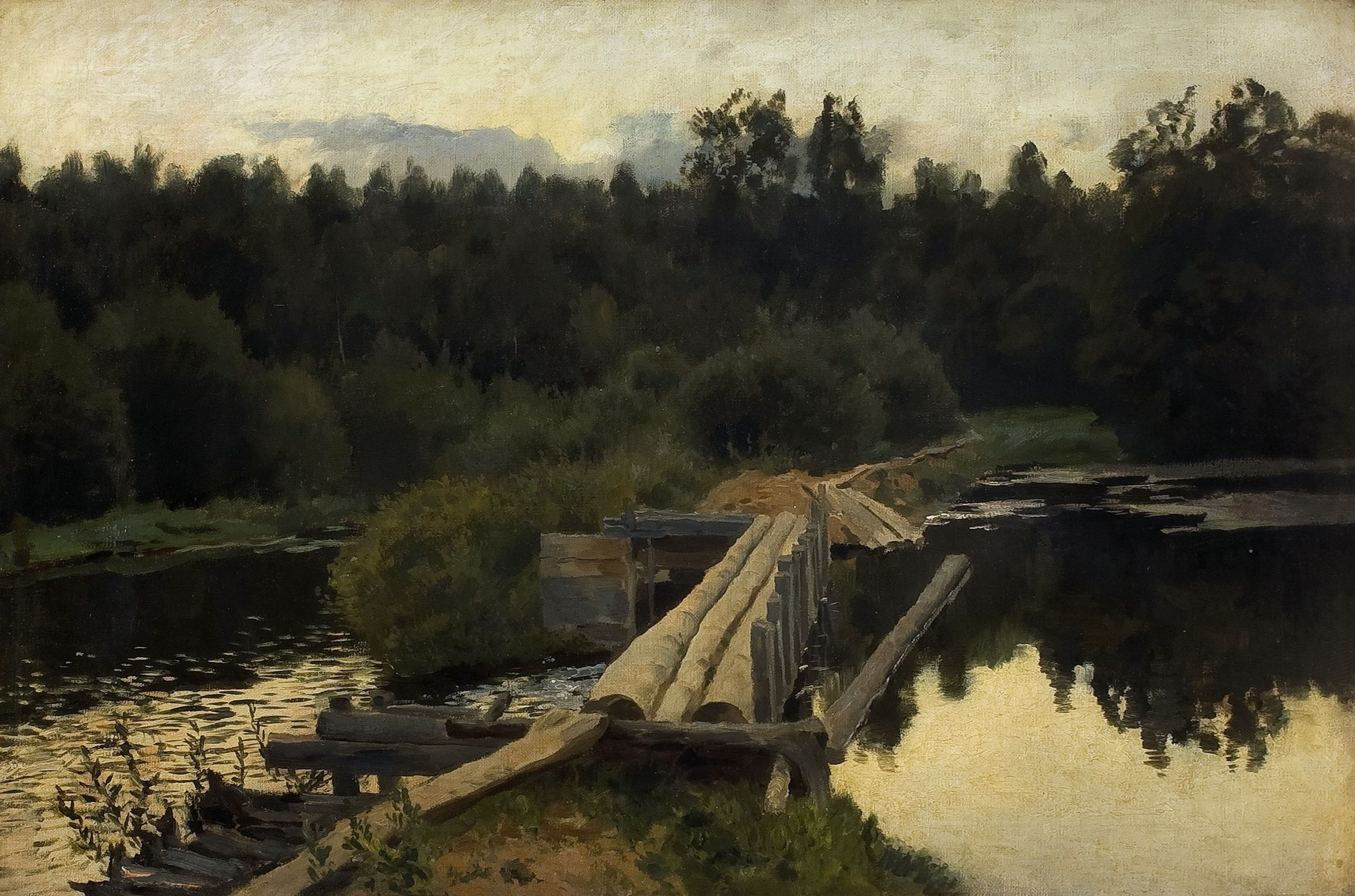 By the pool (study by Isaac Levitan, 1891)